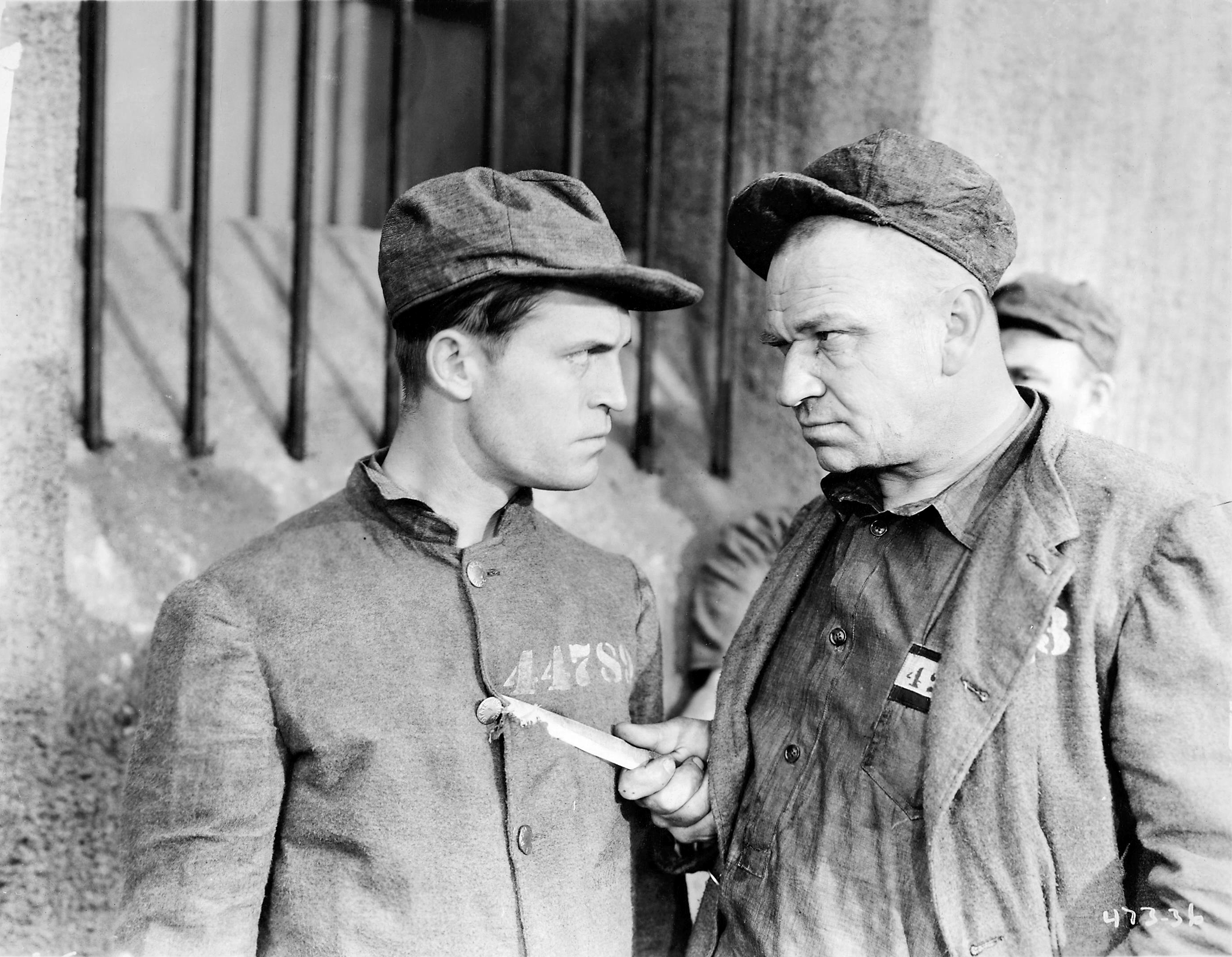 Promotional still for the American drama film The Big House (1930) featuring Chester Morris and Wallace Beery.